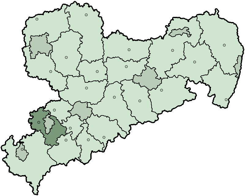 Map of the state Saxony in Germany before 2008, district Zwickauer Land highlighted.